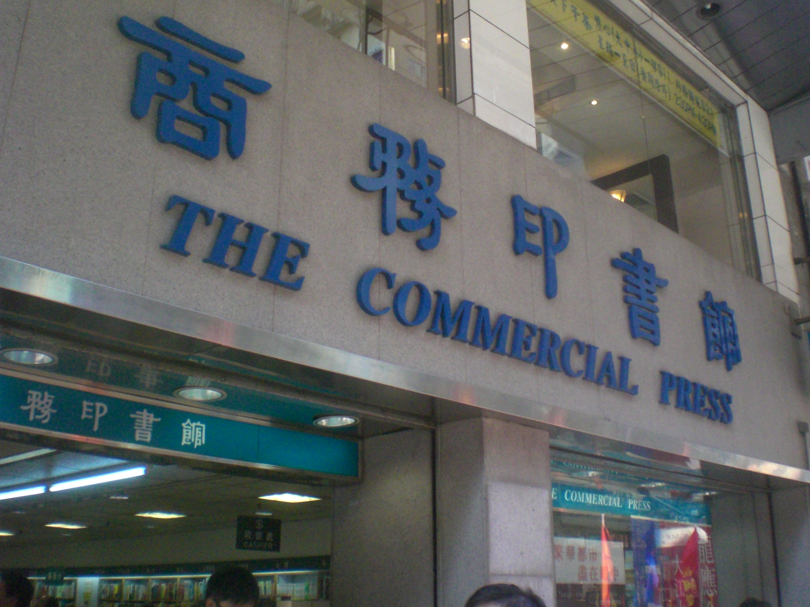 北角zh:英皇道僑冠大廈